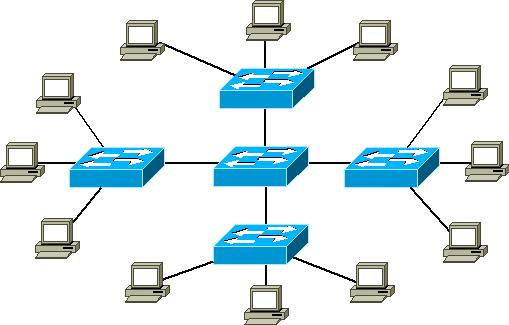 network topology